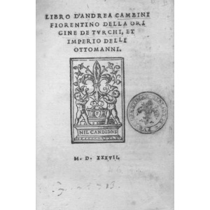 Cover of the book Libro d'Andrea Cambini fiorentino della origine de Turchi, et imperio delli Ottomanni